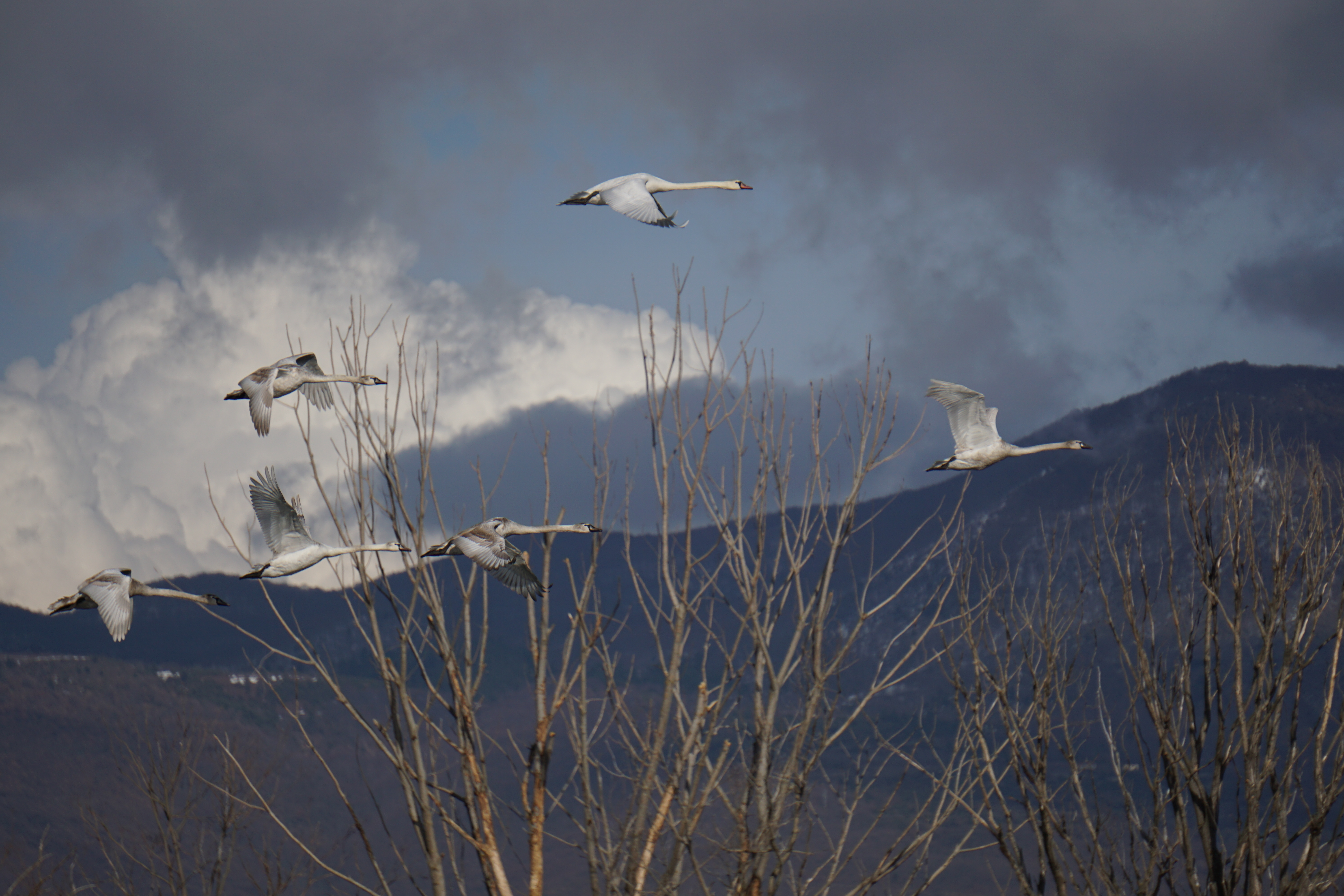 This is a photography of Natura 2000 protected area with ID GR1340004